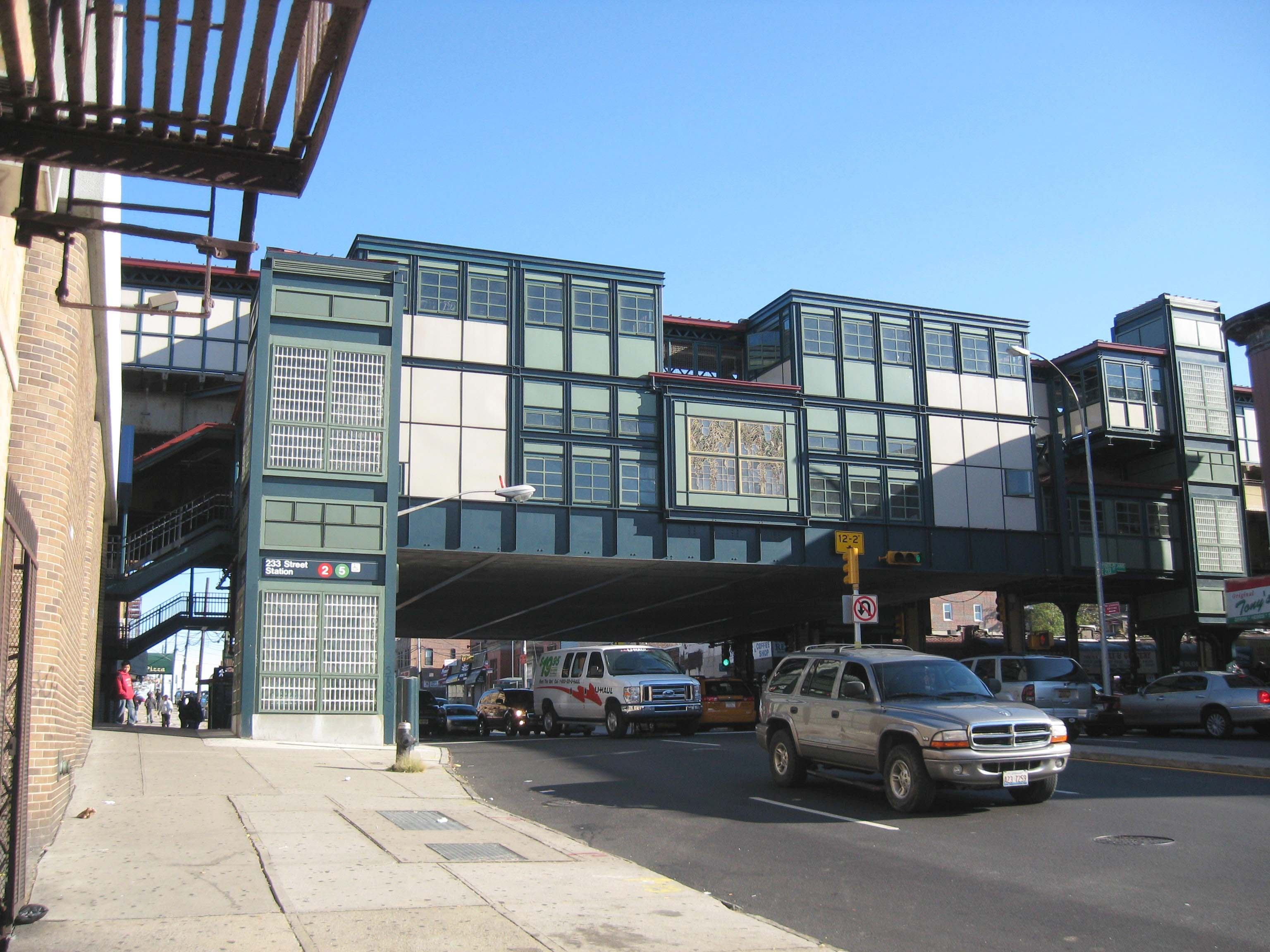 Looking southeast at en:233rd Street (IRT White Plains Road Line) on a sunny early afternoon